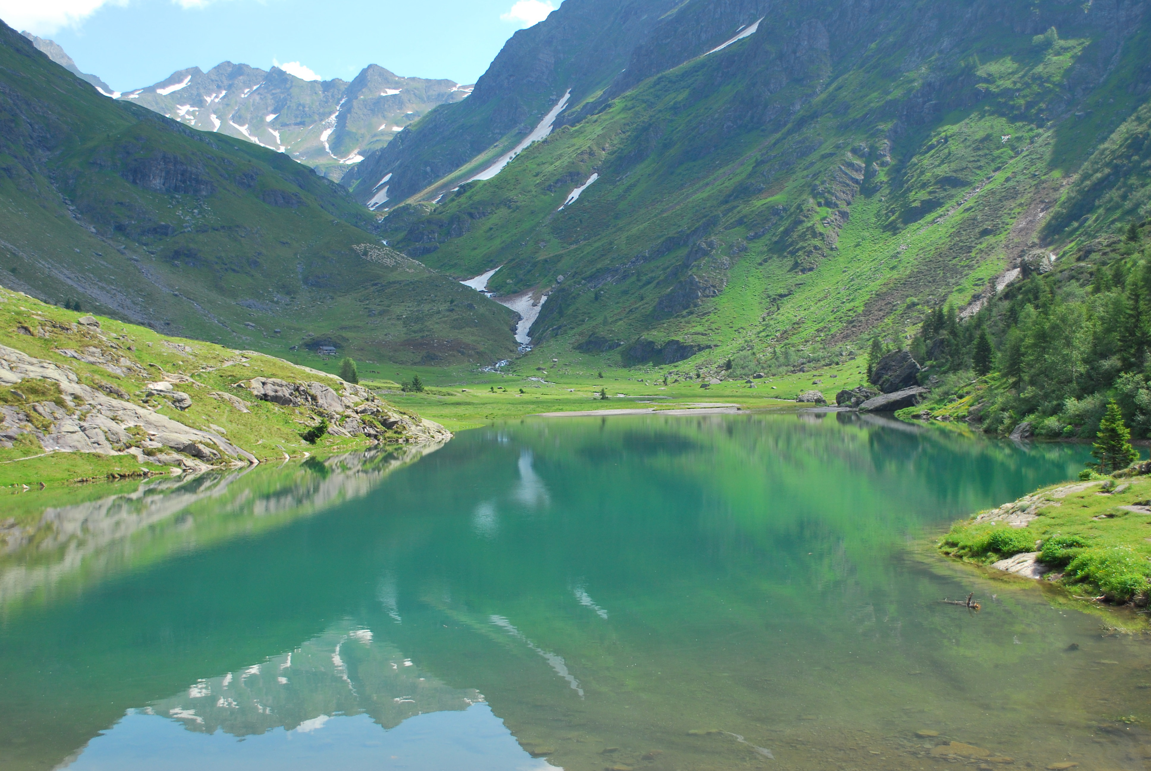 Lake Gleno, Lombardy, Italy